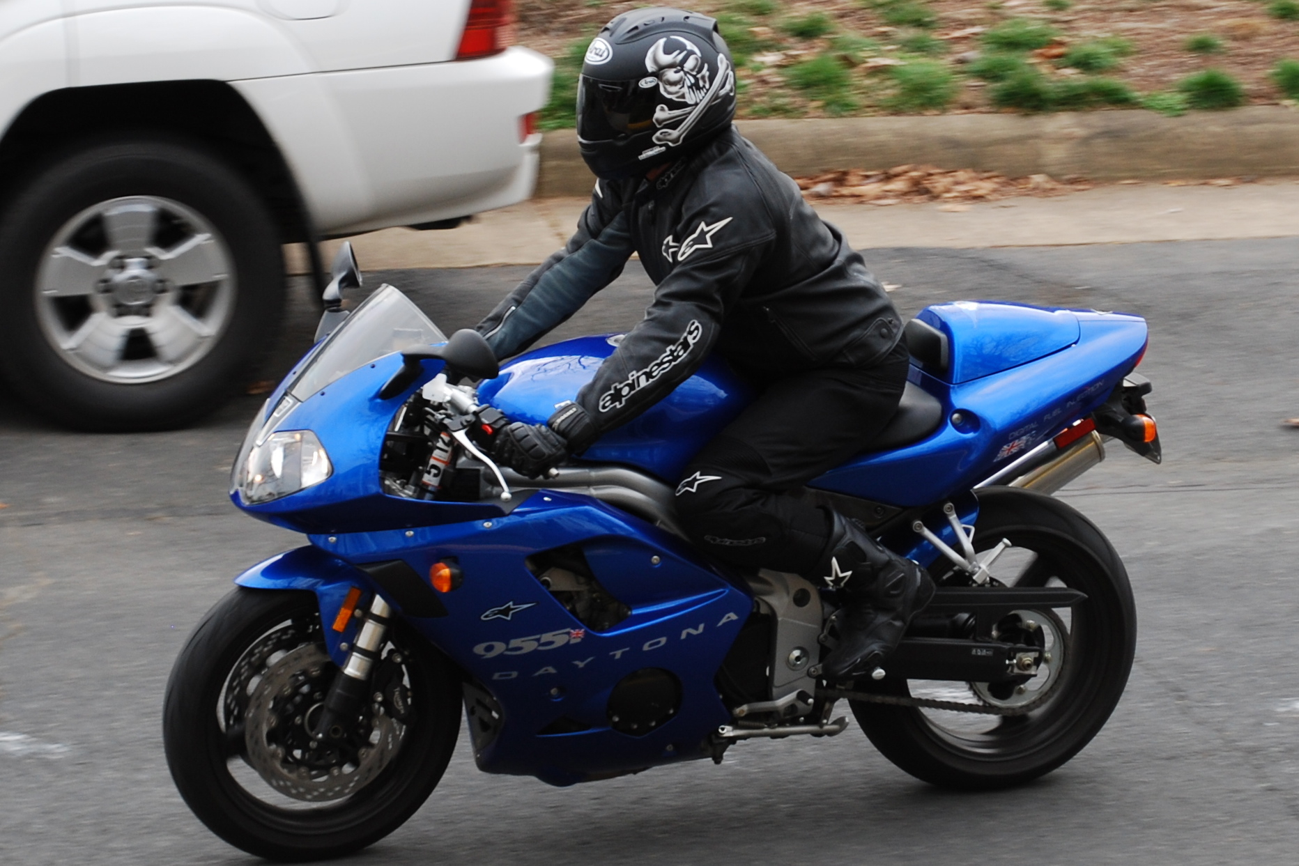 2002 Triumph Daytona 955i in Caspian Blue ridden by British Sport Bike Enthusiast from the USA.